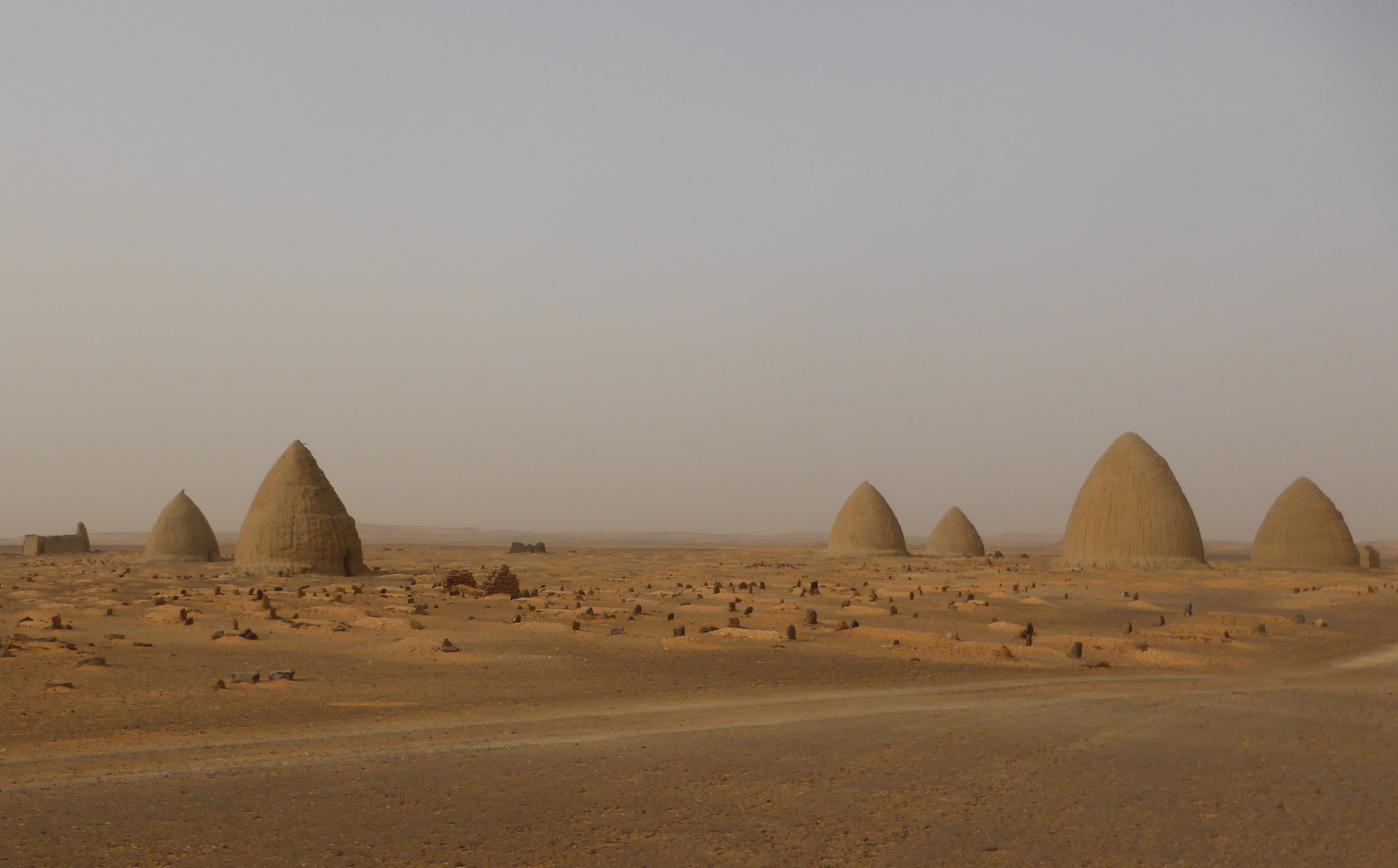 Old Dongola saints' tombs